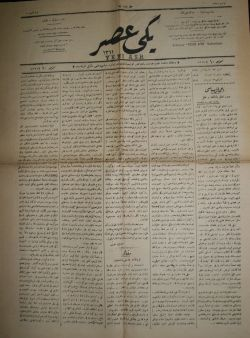 Yeni Asir newspaper